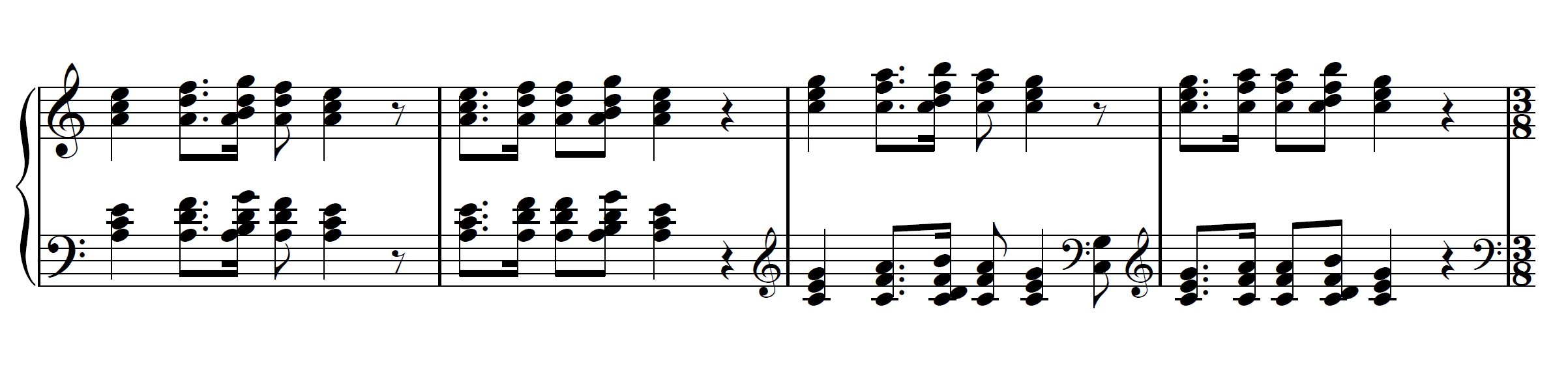 The first four bars of the main piano theme of the first movement of Edvard Grieg's Piano Concerto in A minor, Op. 16